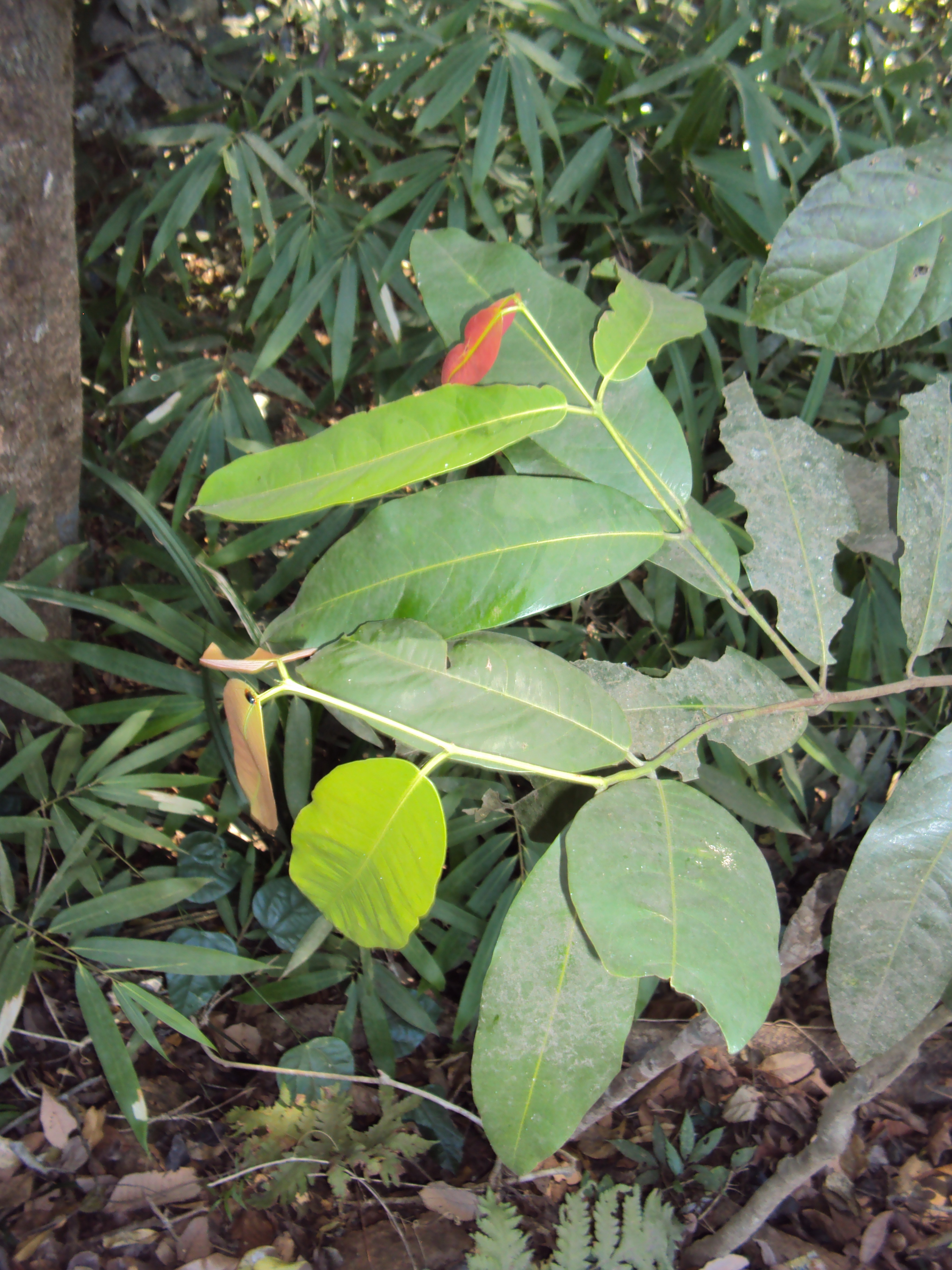 Lophopetalum wightianum